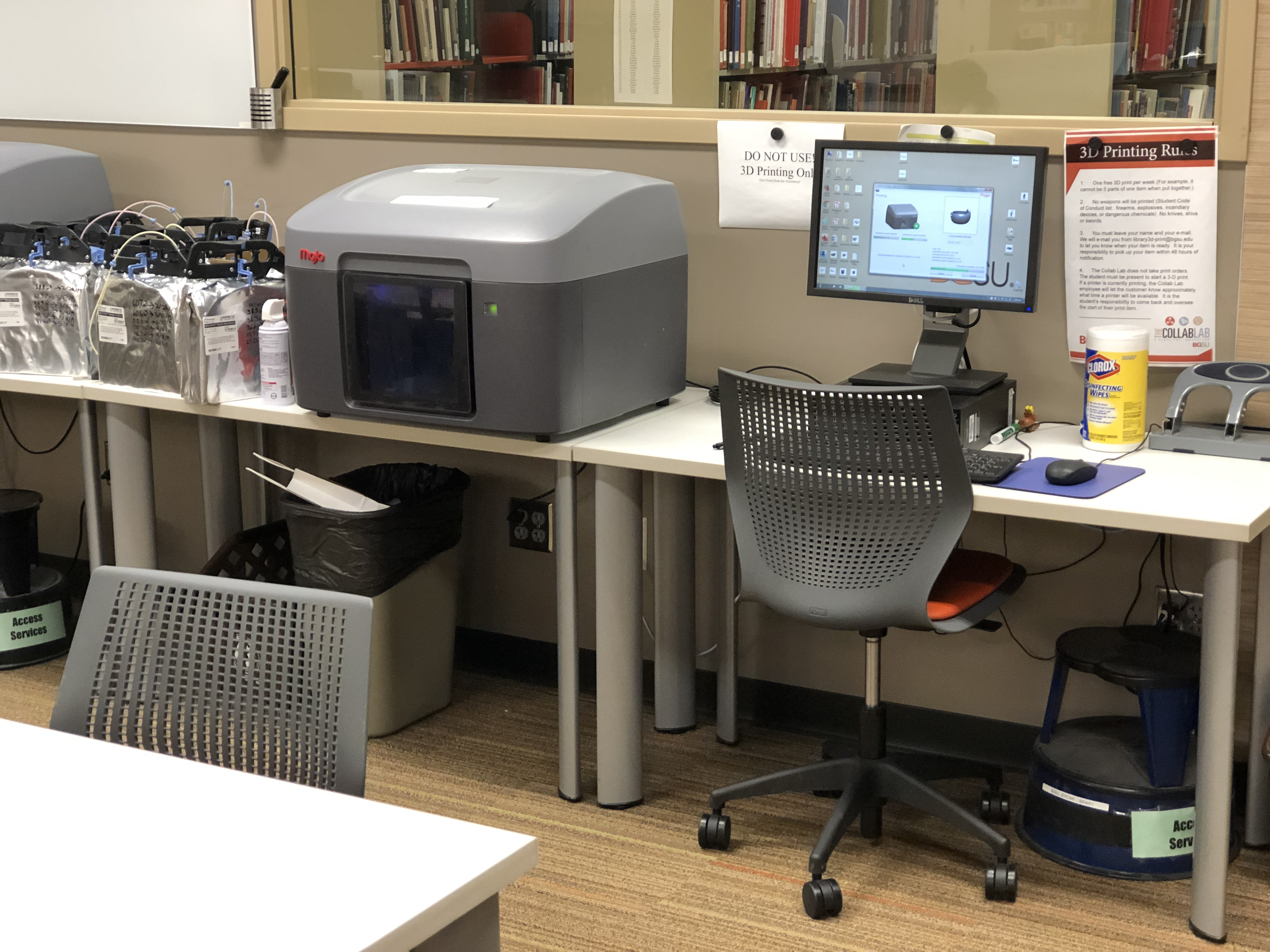 A Stratasys Mojo 3D printer at the BGSU Collab Lab